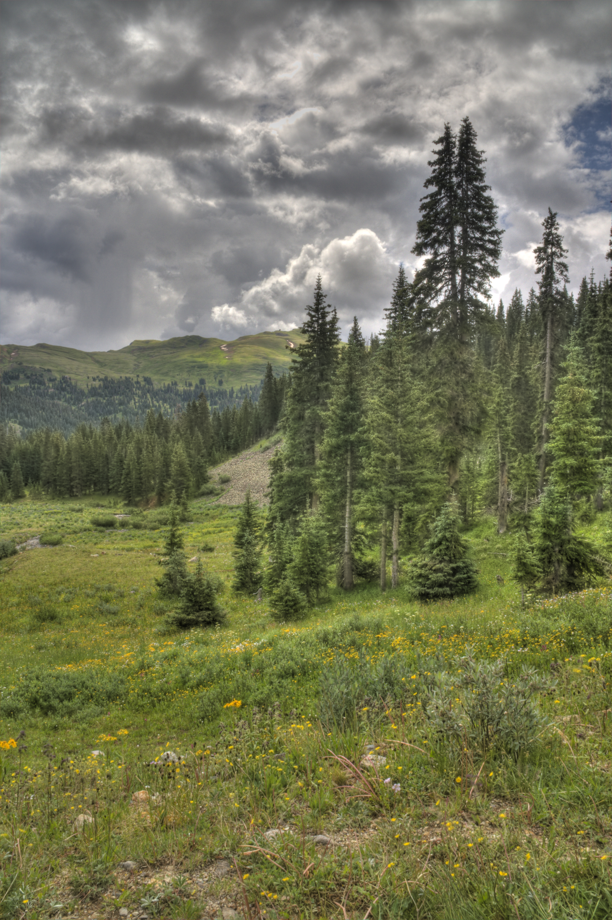 Black Bear 2